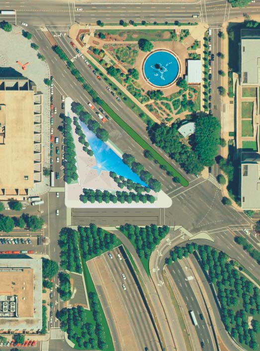 National Park Service drawing of the proposed site of the American Veterans Disabled for Life Memorial in Washington, D.C., in the United States. The drawing shows a sketch of the proposed memorial (star-shaped fountain, trapezoidal reflecting pool, and groves of trees) and a realigned C Street SW.